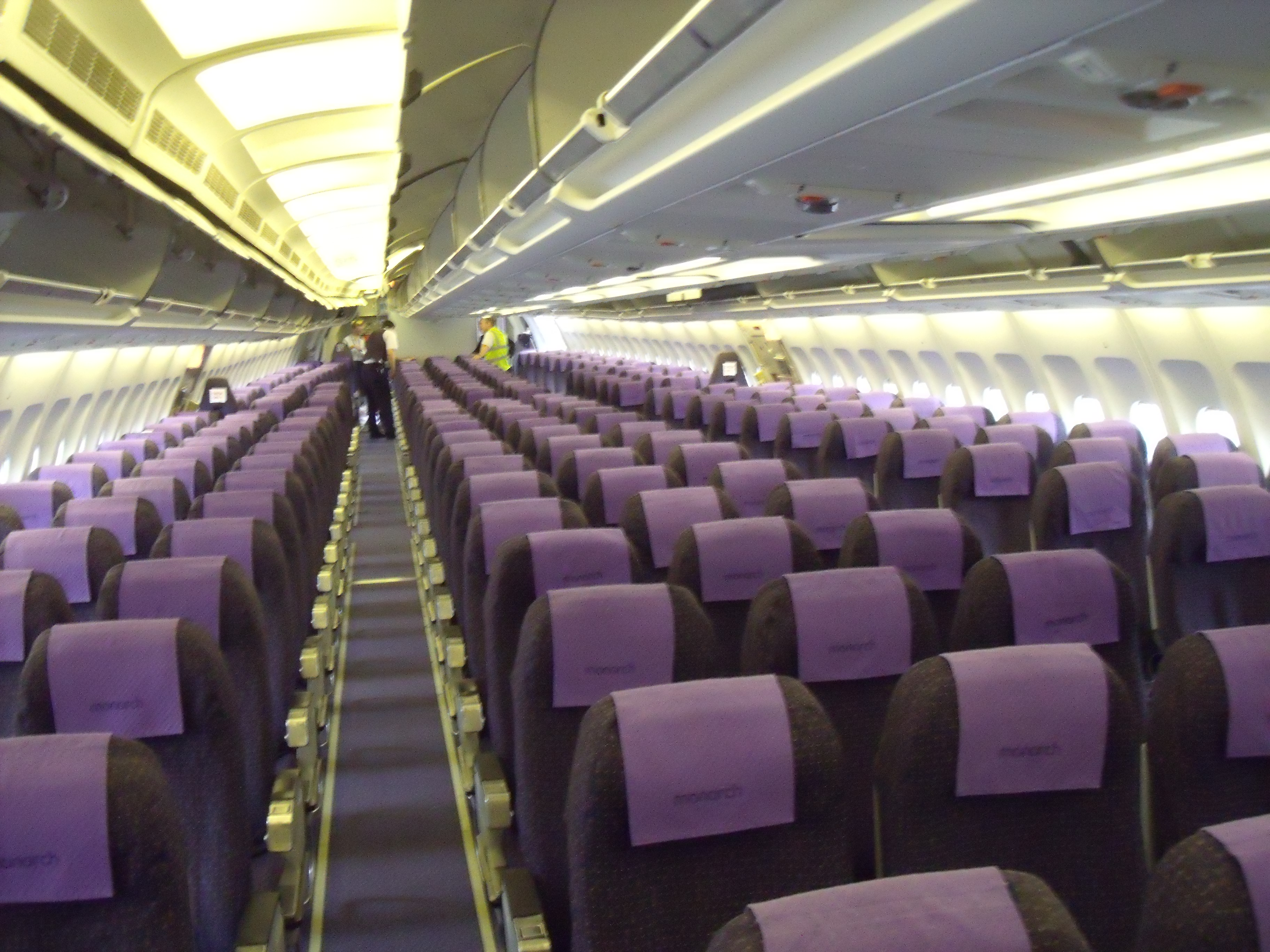 G-MONR Airbus A300B4-605R (cn 540) Monarch Airlines. Flight ZB643 MAN-LCA. Manchester - International (Ringway) (MAN/EGCC) UK - England